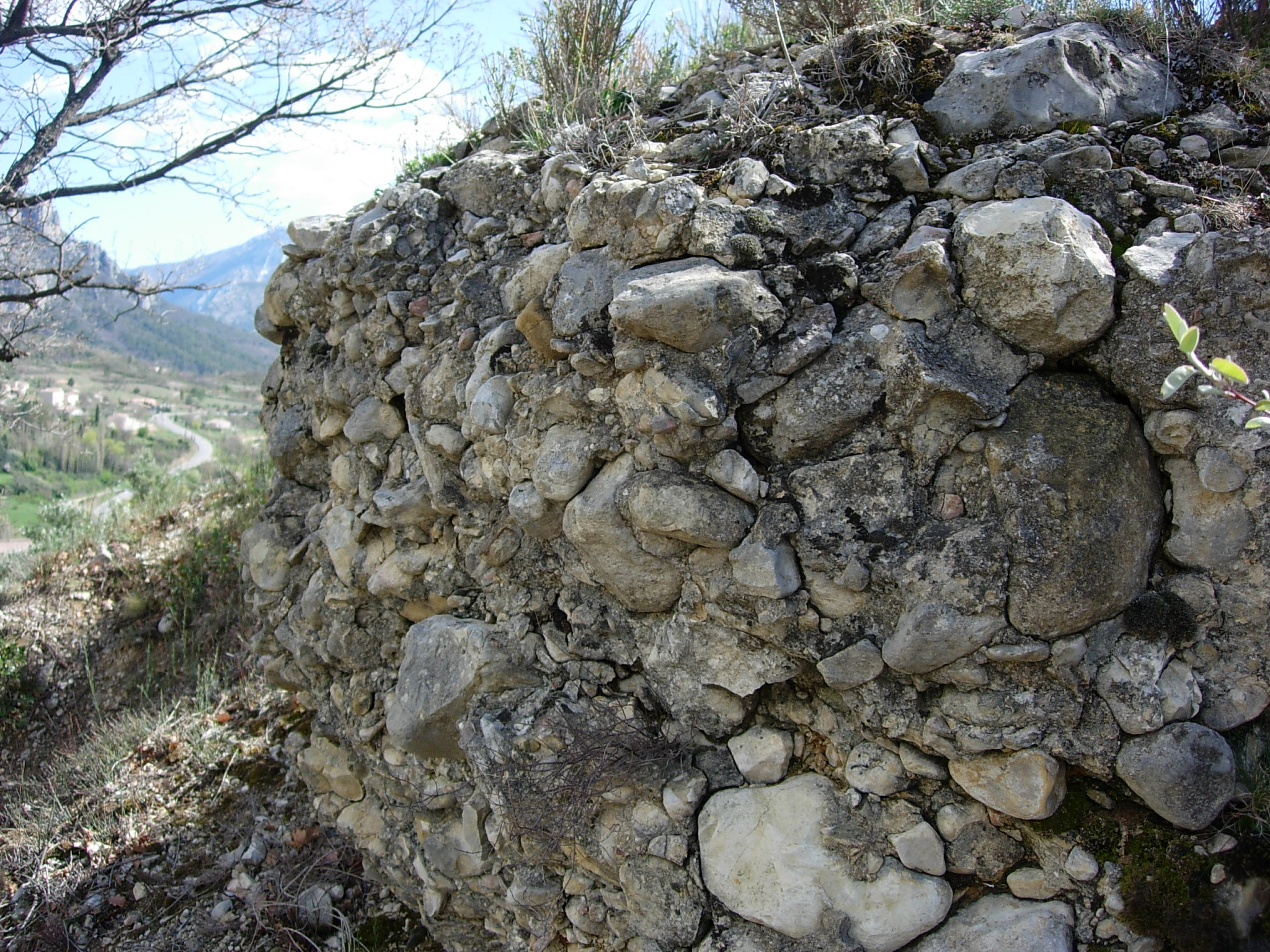 conglomerate near of Moustiers-Sainte-Marie